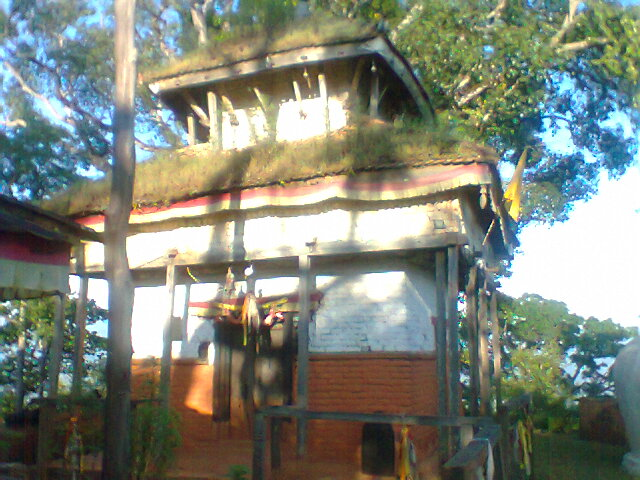 Dhuleshhwar